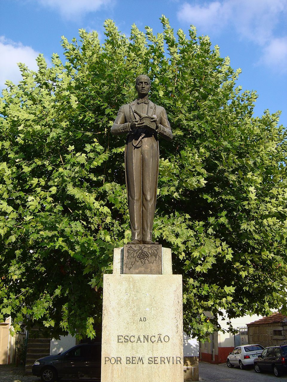 See where this picture was taken. [?]